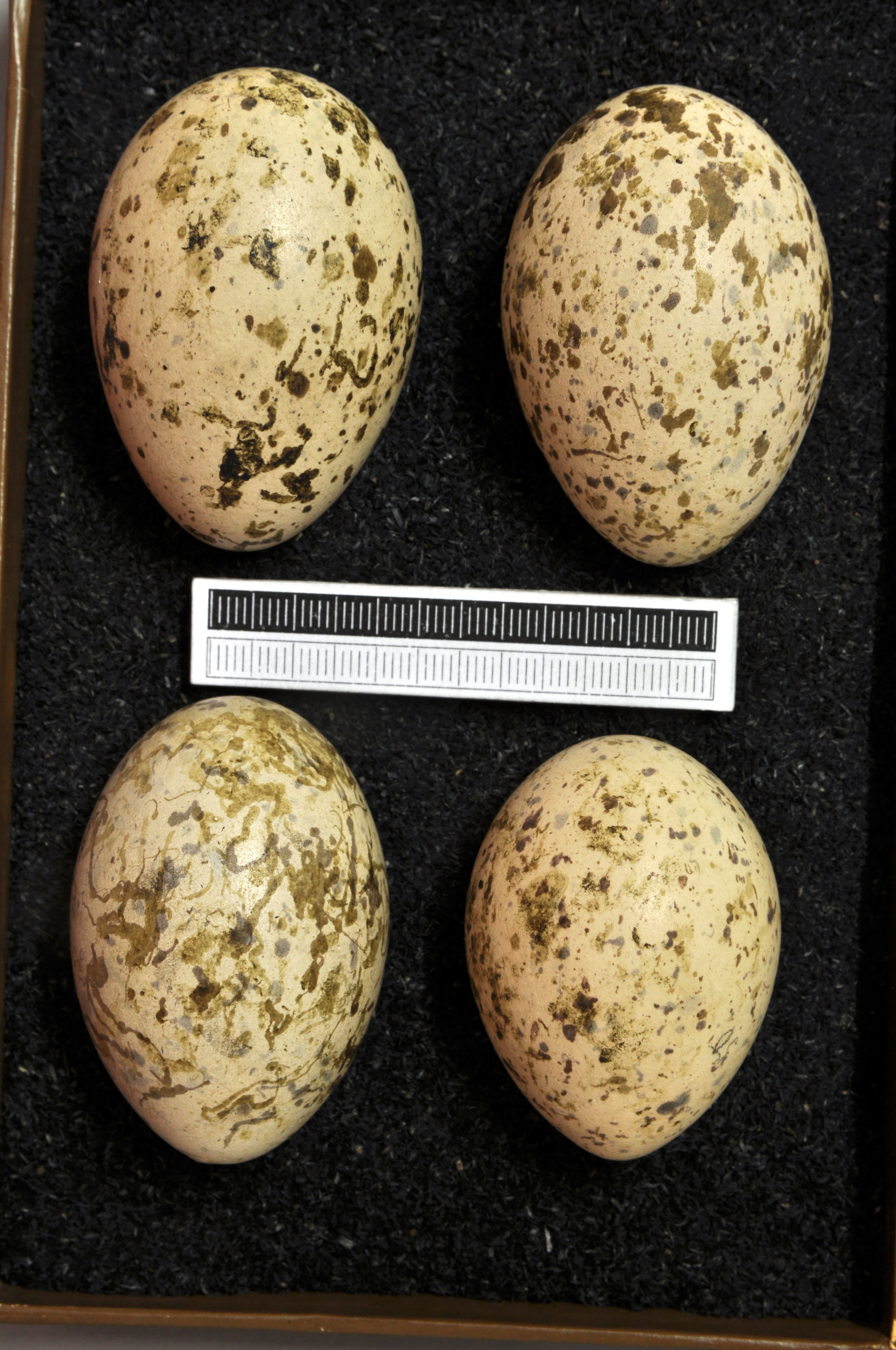 Stone curlew Burhinus oedicnemus , egg, Coll. Museum Wiesbaden